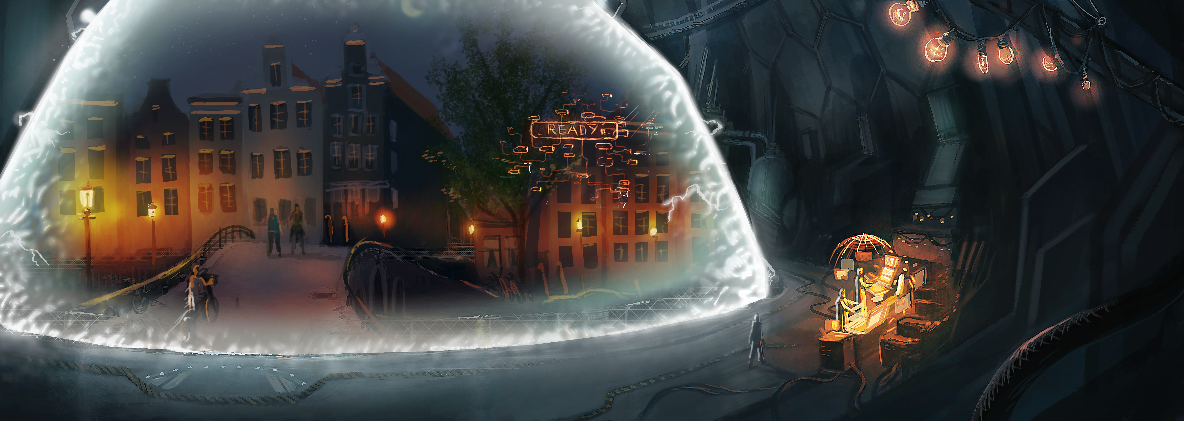 Artwork done by David Revoy for the preproduction of the fourth open movie of the Blender Foundation 'Tears of Steel' ( project Mango ).